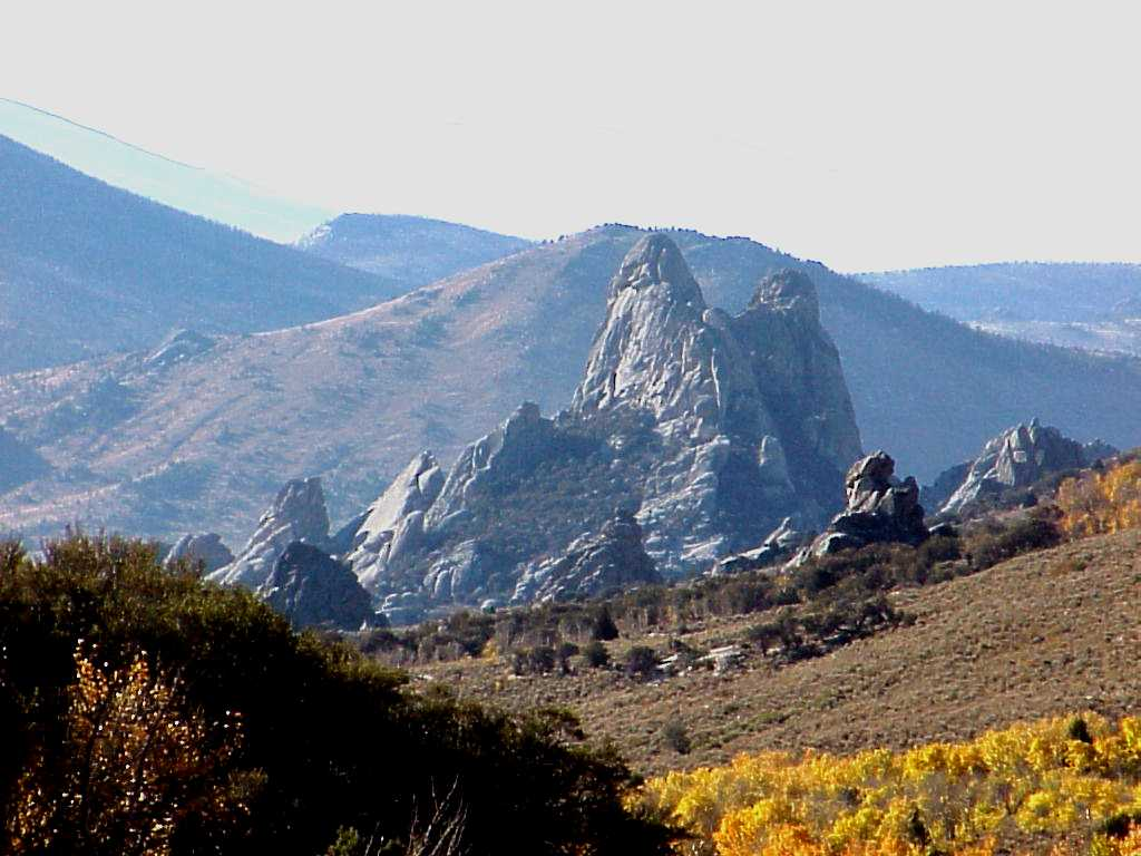 Fritillaria pudica, Yellow Bells at City of Rocks National Reserve in Idaho.